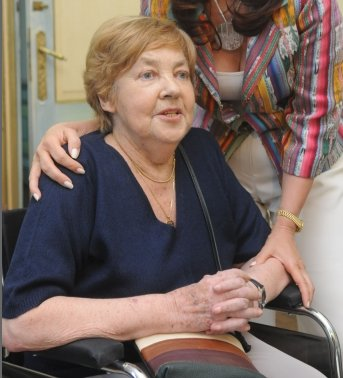 María Elena Walsh with President of Argentina, Cristina Fernández (cropped).